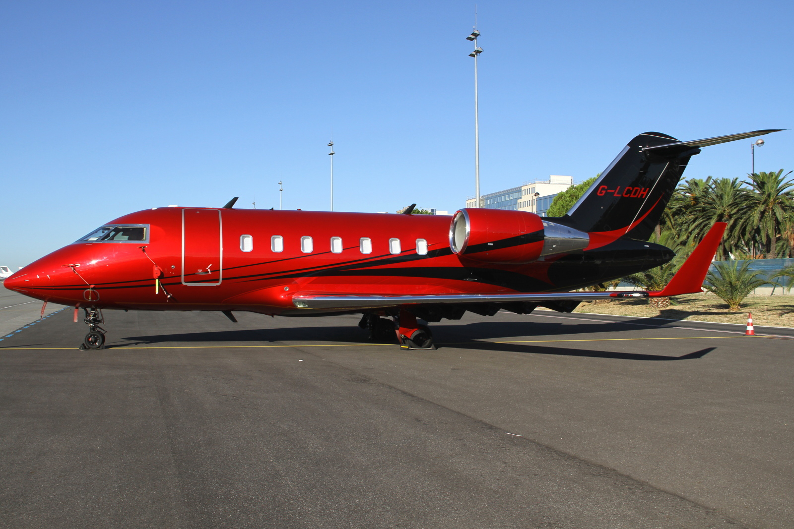 Lewis Hamilton's Bombardier CL-600-2B16 Challenger 605 at Nice Airport